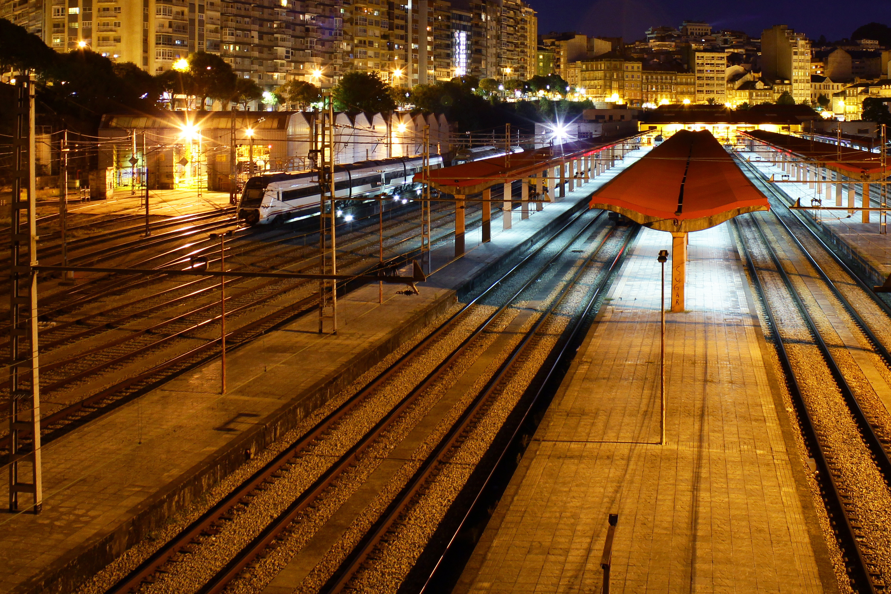 Train station Vigo Urzáiz, Galicia, Spain